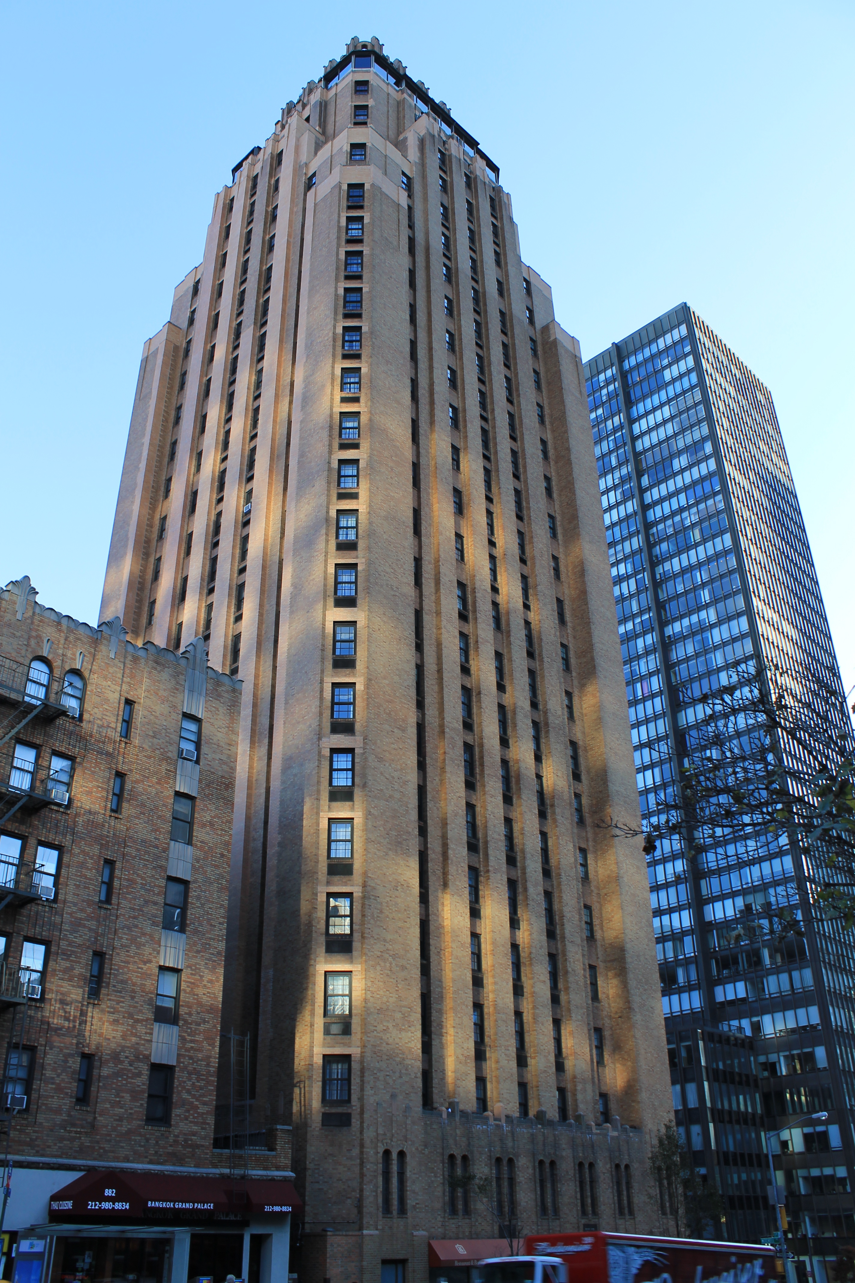 From Sutton Place to United Nations